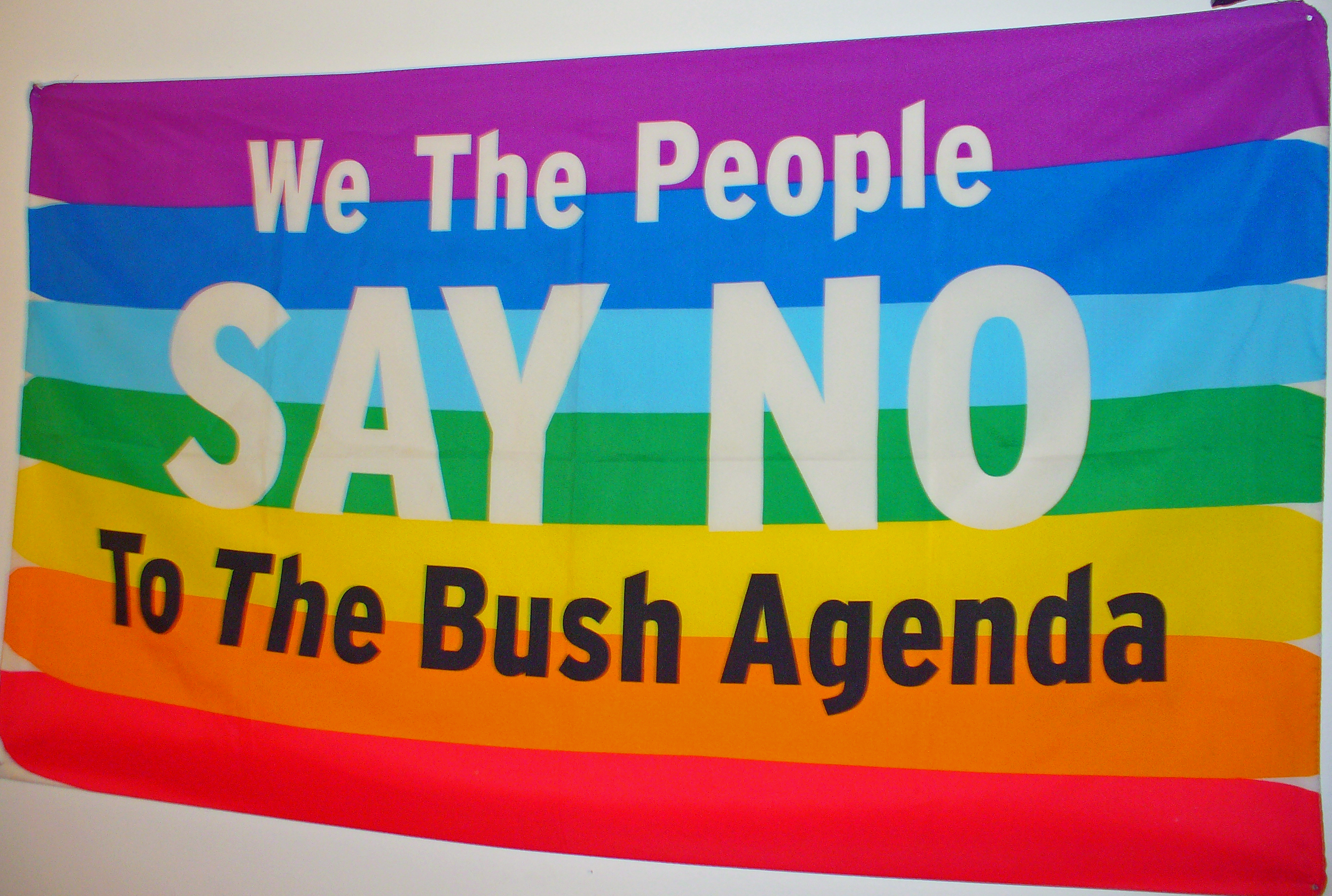 We the People Say No to the Bush Agenda